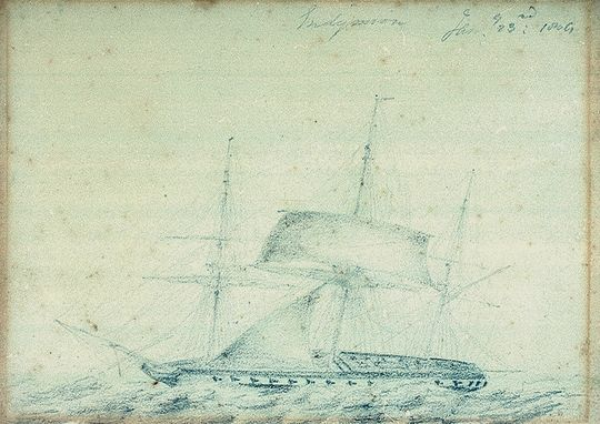 HMS Endymion, pictured on 23 January 1809, by Admiral Sir Charles Paget.